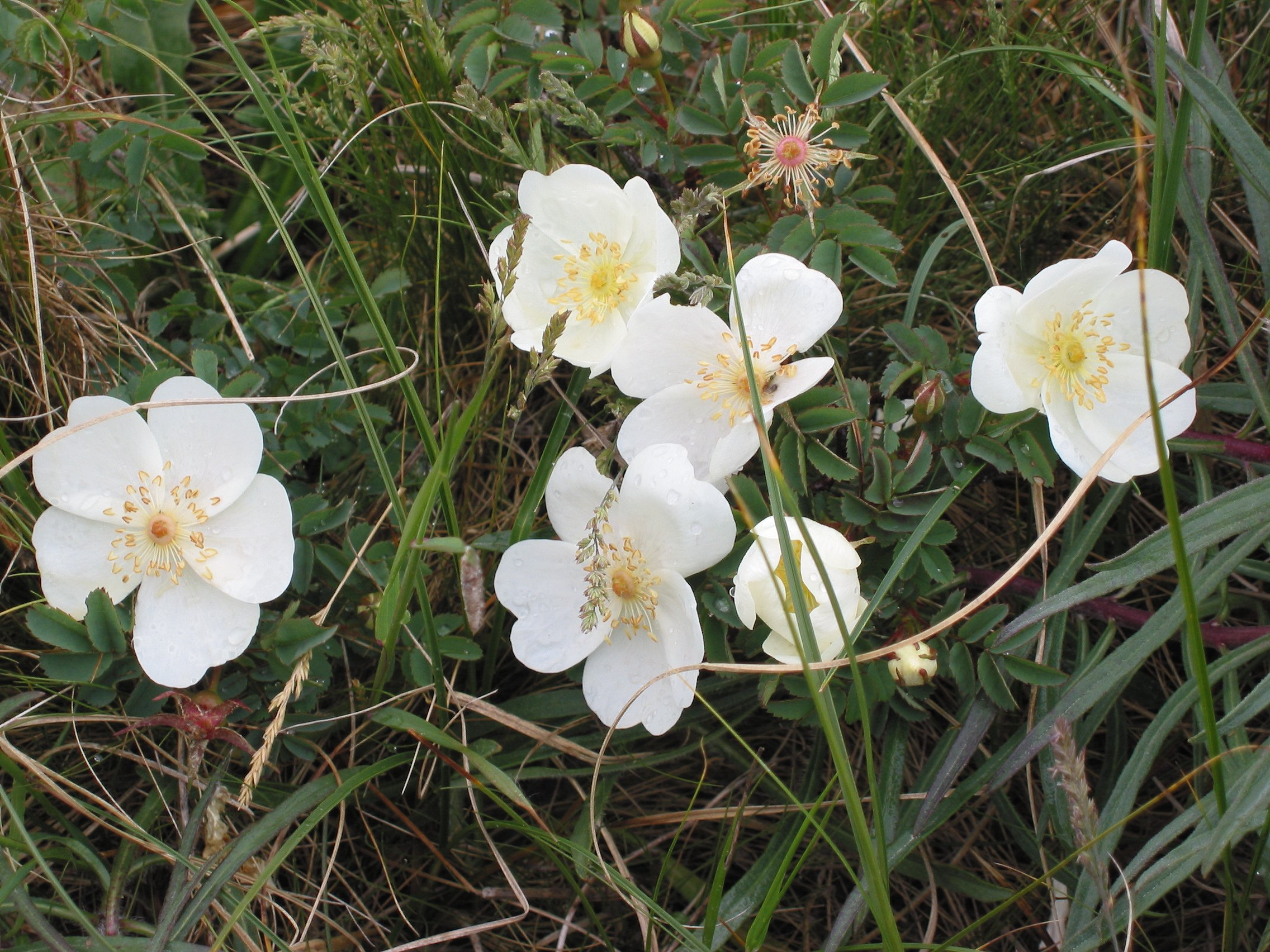 Rosa pimpinellifolia